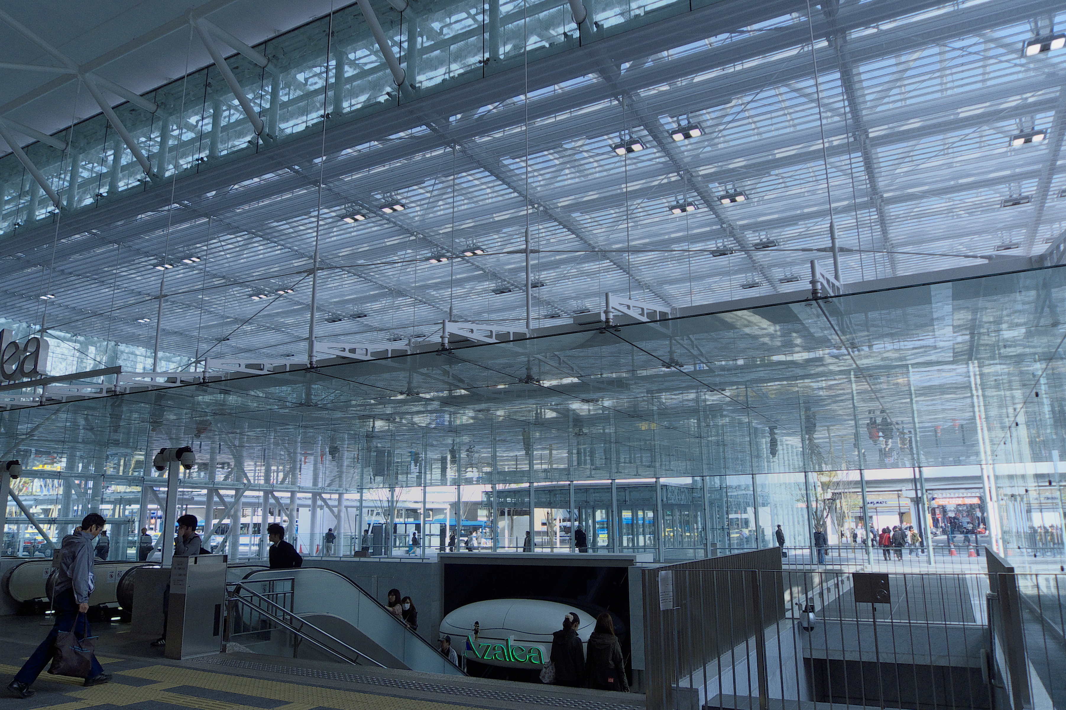 JR川崎駅東口, 地下街アゼリア入口 JR Kawasaki St. East exit, Entrance of "Kawasaki Azalea"